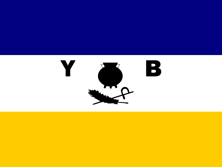 Flag of Yerbas Buenas commune